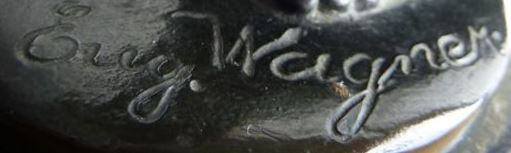 Signature of German sculptor Eugen Wagner (187—1942)